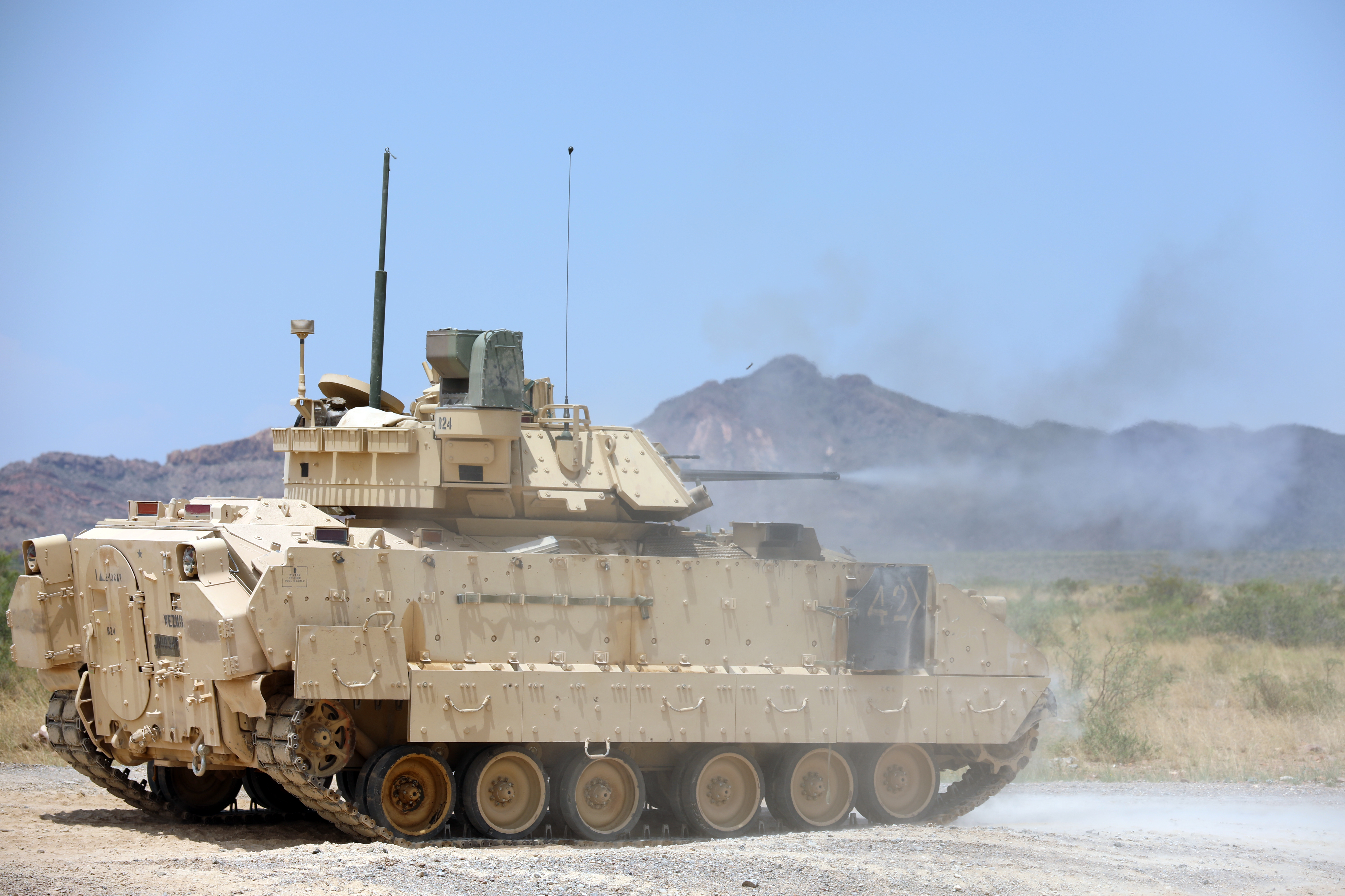 An M2A3 Bradley Fighting Vehicle crew shoots the vehicle’s M242 Bushmaster 25mm Chain Gun during gunnery training at the Doña Ana Range Complex, N.M., Aug. 3, 2018.